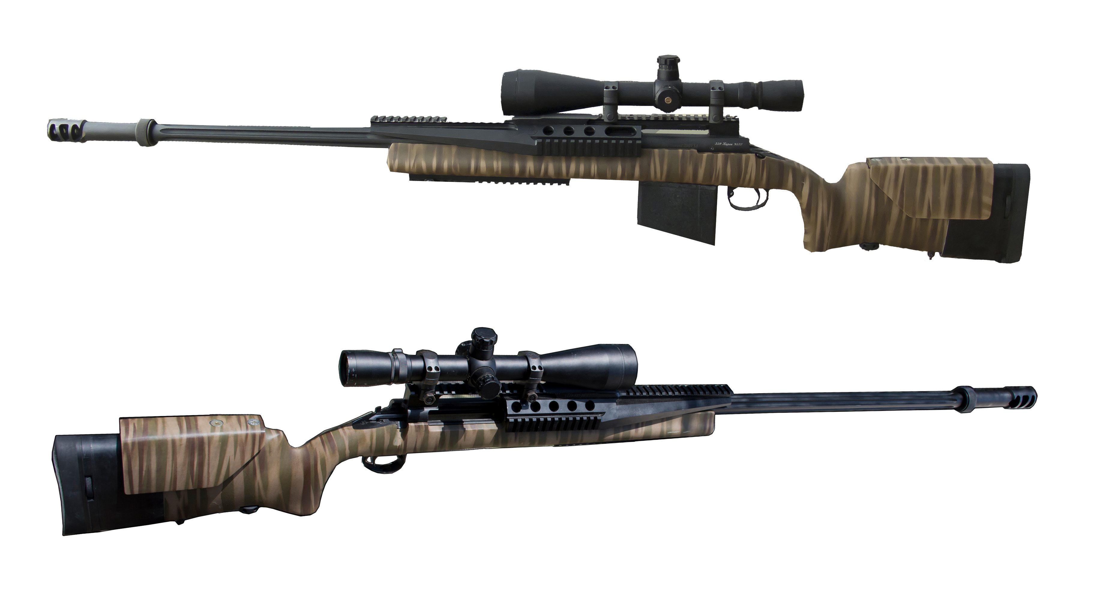 IDF Barak 338 - H-S Precision Pro Series 2000 HTR